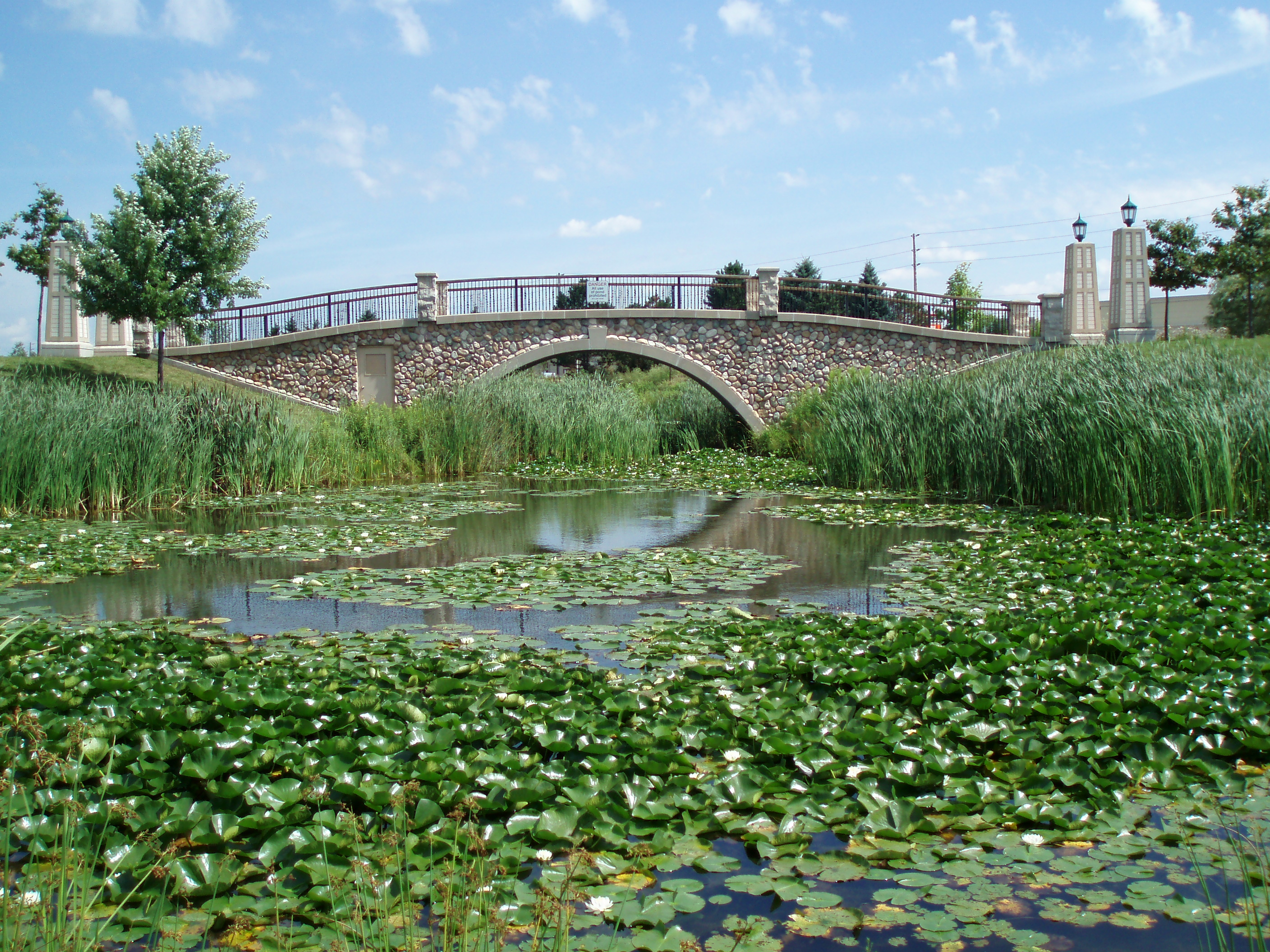 Richmond Green Sports Centre & Park 1300 Elgin Mills Road East Richmond Hill, Ontario Canada